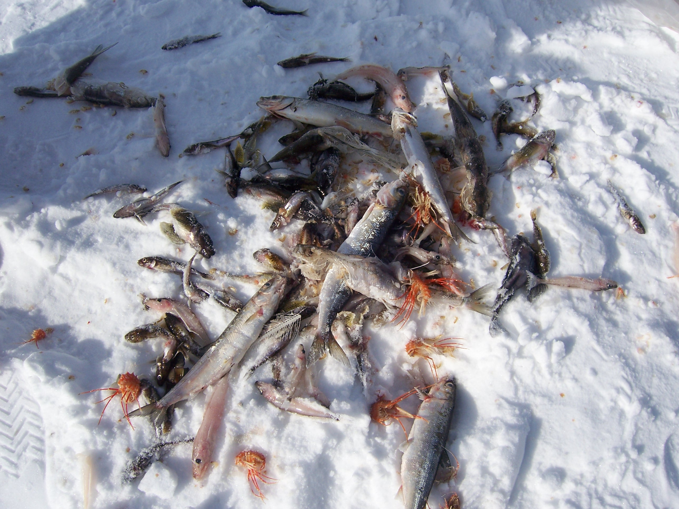 Ice-fishing on Baikal. Among the species visible on the photo are at least three fish species: Whitefish (Coregonus — for example, the five largest on the photo), golomyanka (Comephorus — the pinkish fish in the upper-central part of the photo and another in the lower-left part; also several others on the photo) and Baikal yellowfin (Cottocomephorus grewingkii — the fish with yellowish pectoral fin in the upper-right part of the photo; also several others on the photo). The red amphipods are Acanthogammarus reicherti.